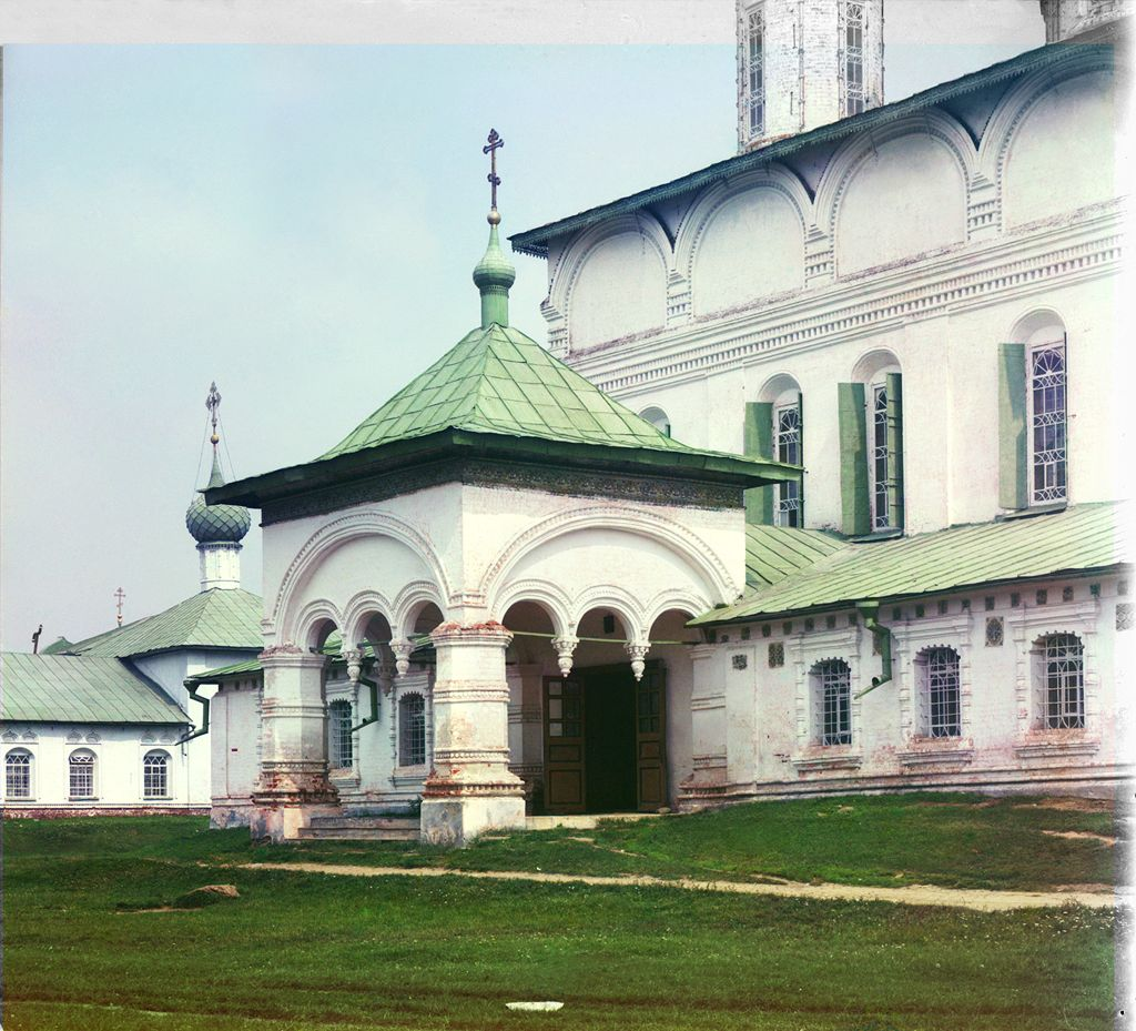 West porch of the Church of the Fyodorovskaya Mother of God. Yaroslavl, 1911